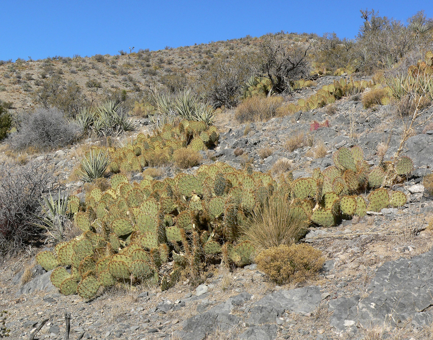 Opuntia phaeacantha just south of Caruthers Canyon, Mojave National Preserve, southern California (the mix of purple and green individuals suggests that the green ones might be hybrids with O. engelmannii)